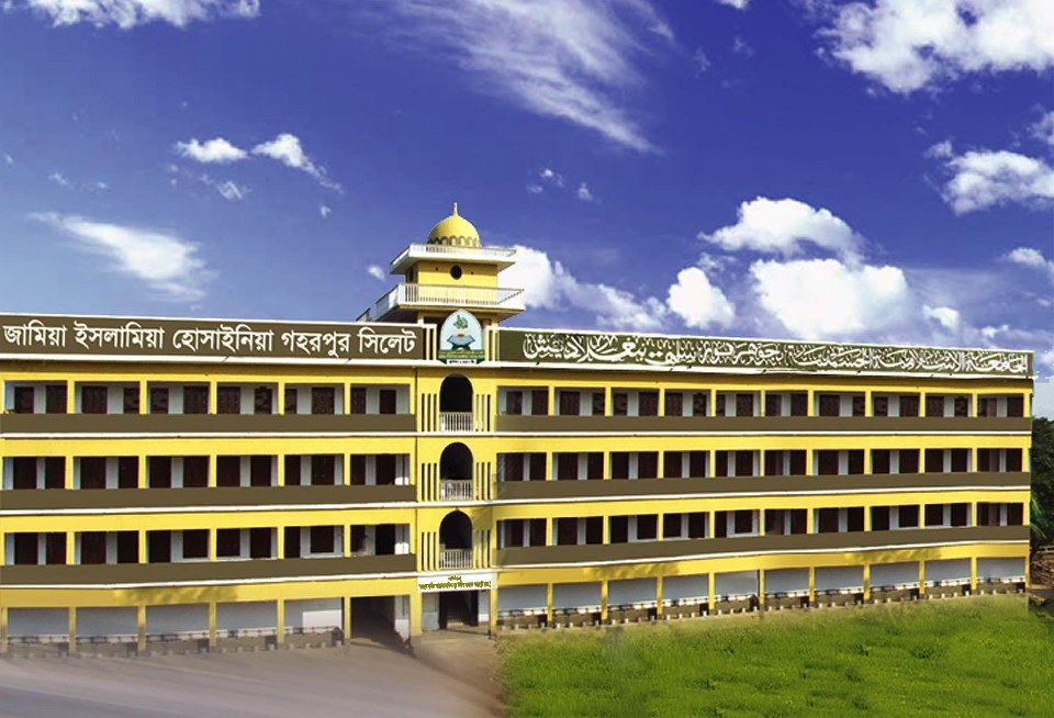 jamia islamia husainia gohorpur, sylhet, bangladesh